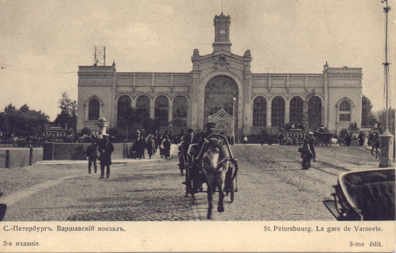 Varshavsky Railway Station